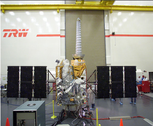 GeoLITE experimental communications satellite.